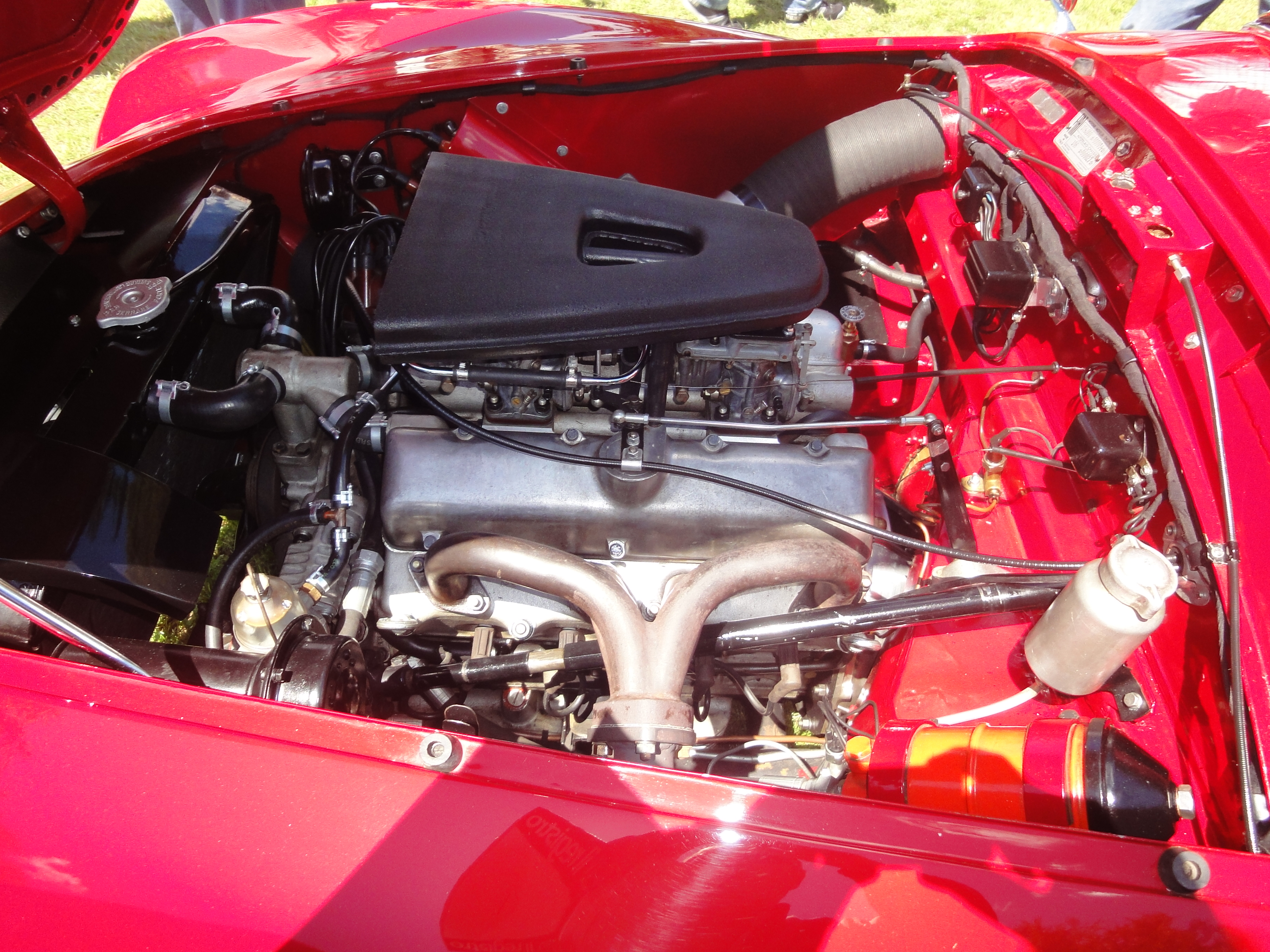 1953 Fiat 8V s/n 000027 at the Concorso d'eleganza Villa d'Este in Italy on 26 May 2013.